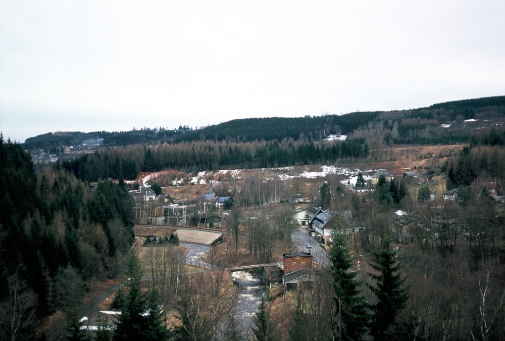 View to the covered tailings dam of the uranium mill at Johanngeorgenstadt, Erzgebirge Mts, Germany.